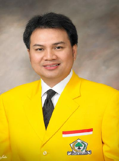 Azis Syamsuddin, member of the House of Representatives of Indonesia from the Golkar Party.